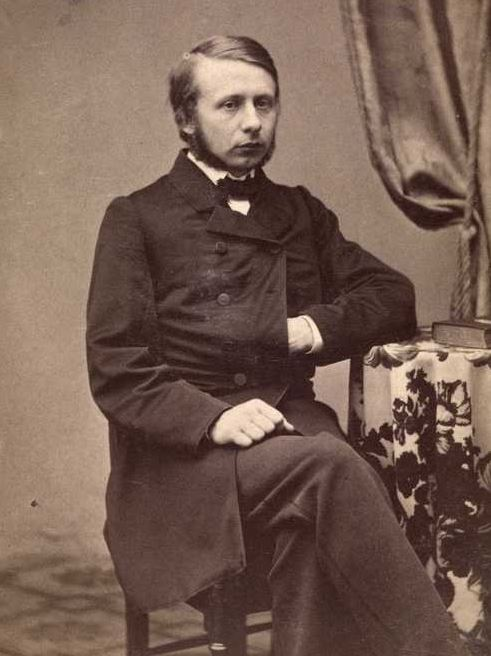 Norwegian population statistician Nils Rosing Bull (1838–1915). Photo from around 1870–1880.